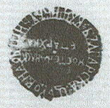 Bulgarian church seal in Shtip